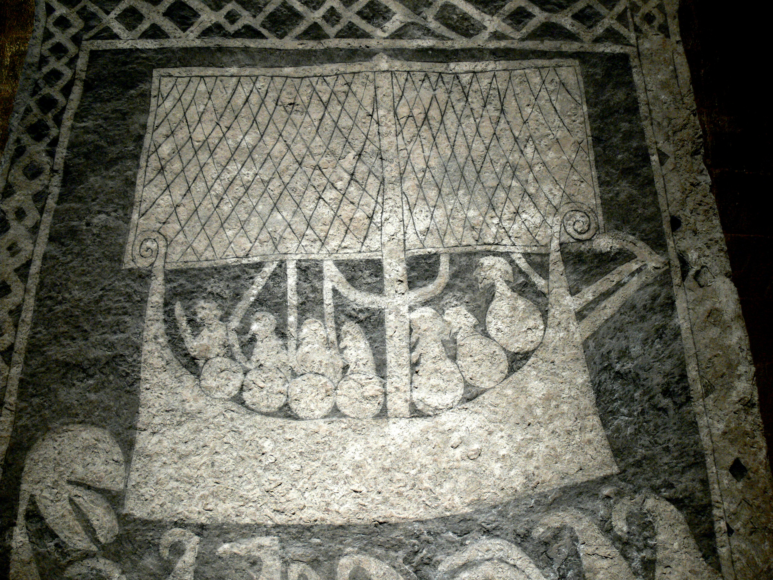 Fornsalen Museum, Visby ( Gotland ). Picture stone showing a ship.